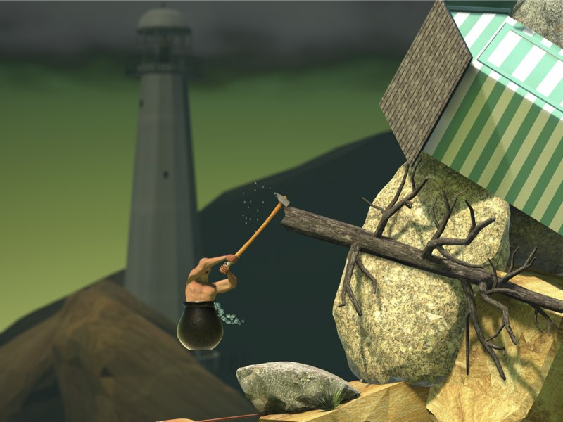 Screenshot of Getting Over It with Bennett Foddy (2017 video game)